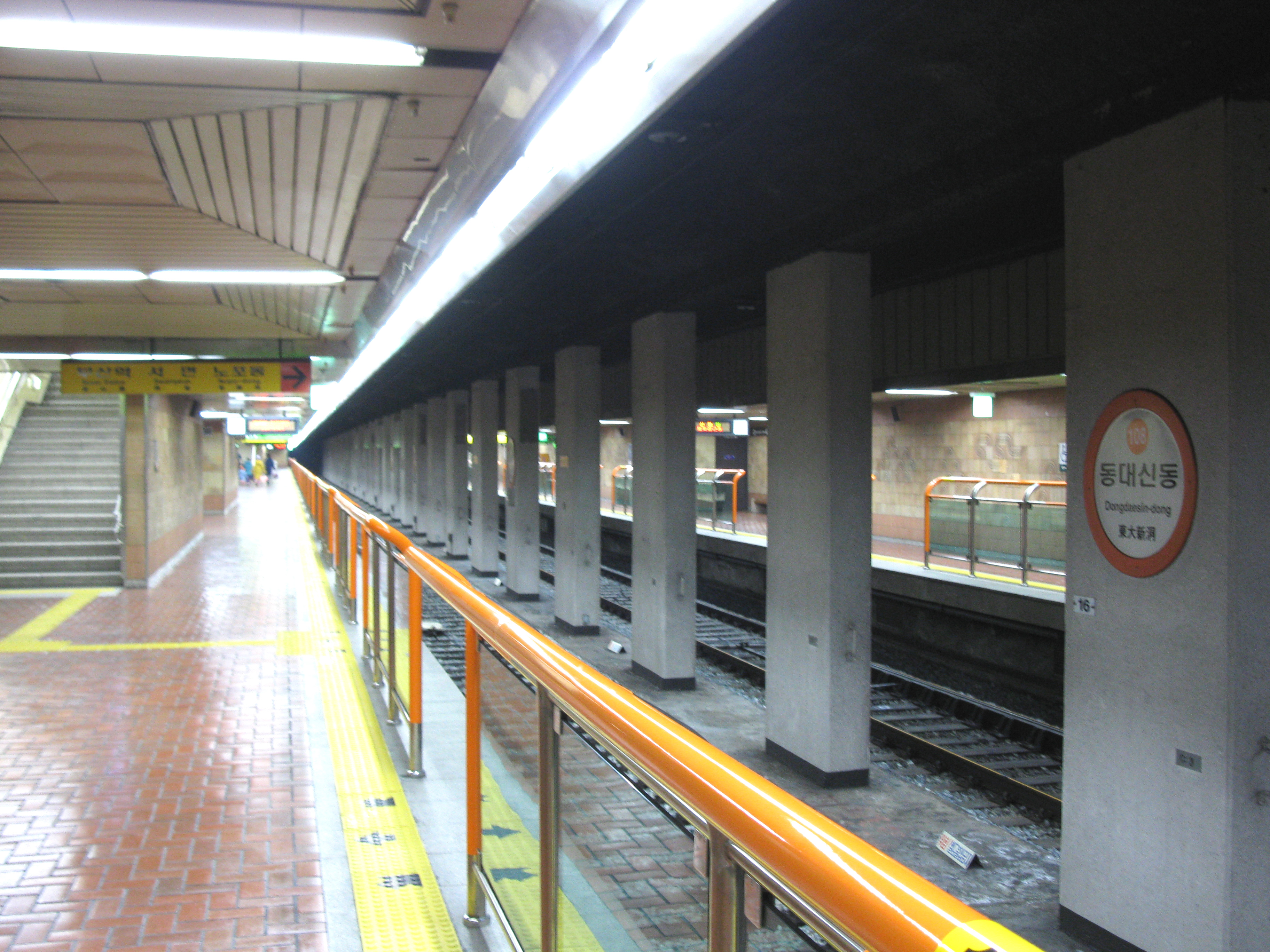 Dongdaesin-dong Station platform (Busan Subway Line 1)